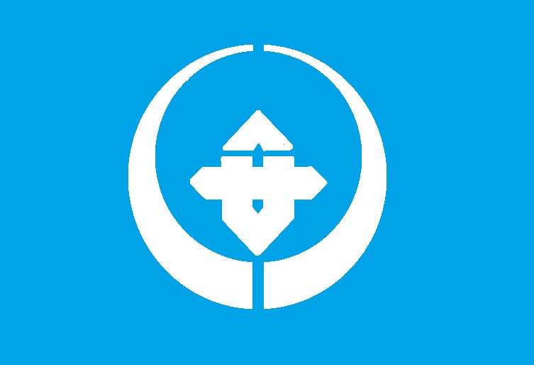 Flag of Anpachi Gifu